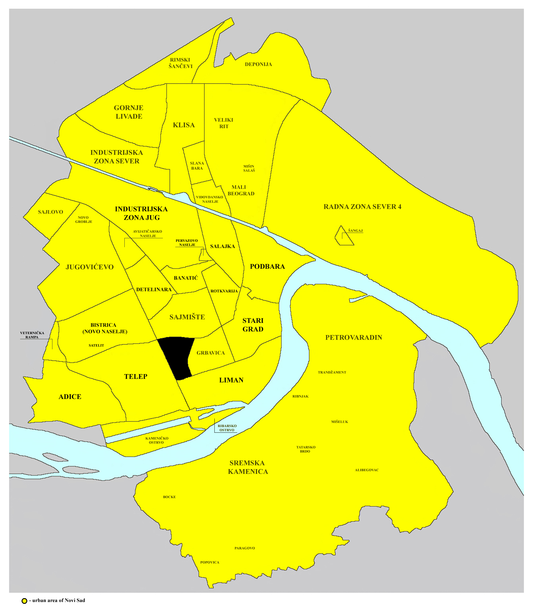 Map of Novi Sad, with position of Adamovićevo naselje marked black.